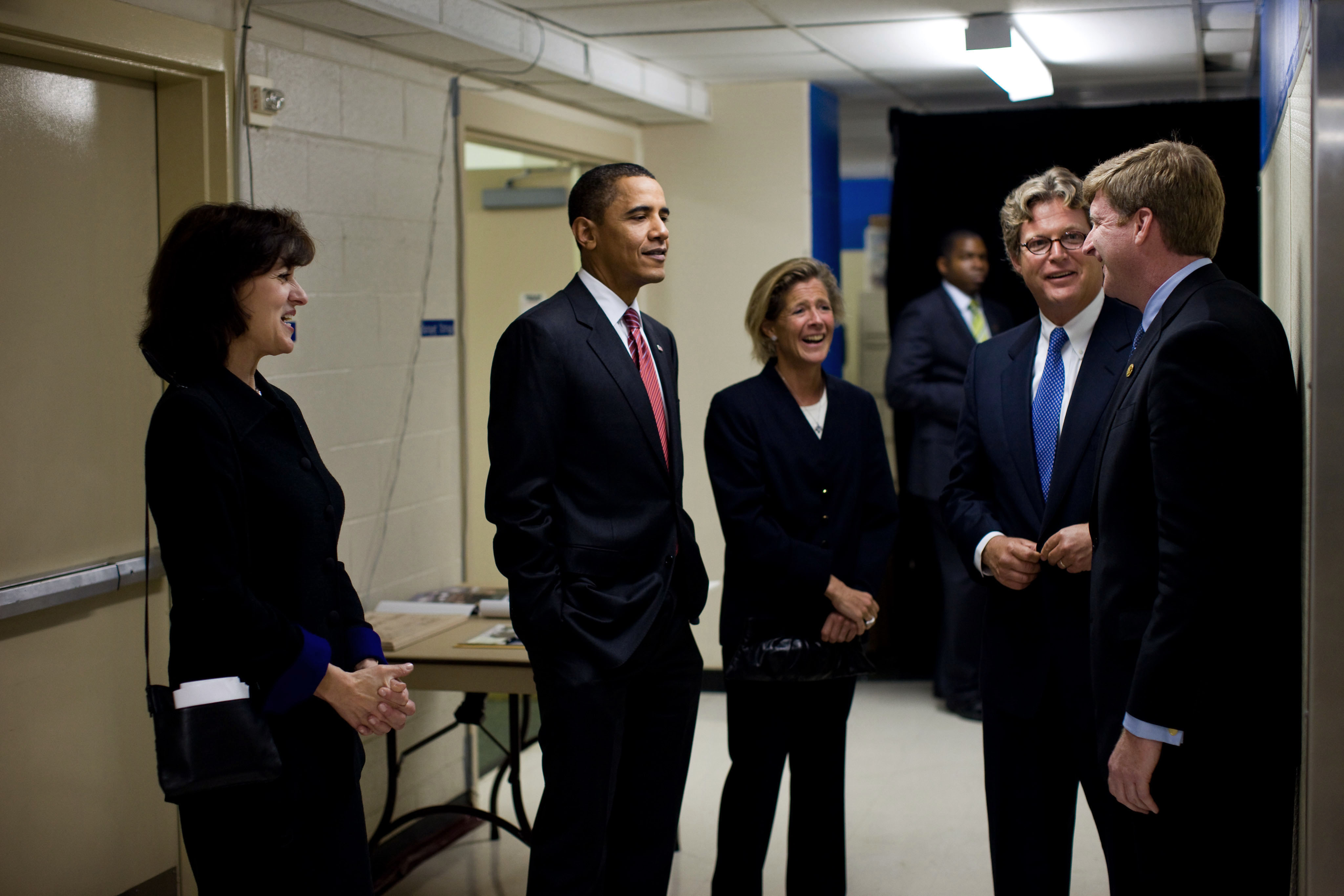 President Barack Obama talks with Vicki Kennedy, widow of Senator Ted Kennedy, and the Senator's children, from right, Rep. Patrick Kennedy, Teddy Kennedy, Jr. and Kara Kennedy, prior to an event celebrating the Edward M. Kennedy Institute for the United States Senate at the Ritz-Carlton Hotel, in Washington, D.C., Oct. 14, 2009. (Official White House Photo by Pete Souza)